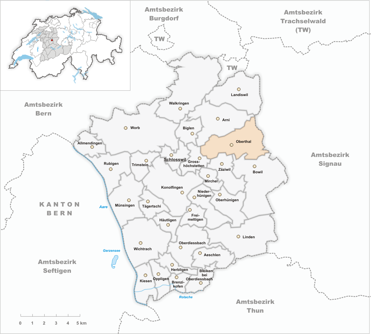 Municipality Oberthal